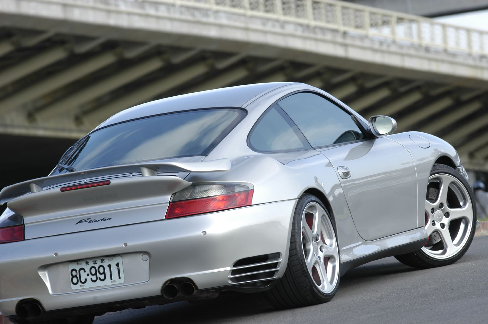 Ruf R turbo (back) based on Porsche 996 turbo